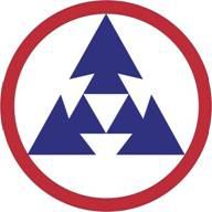 3rd Sustainment Command Shoulder Sleeve Insignia